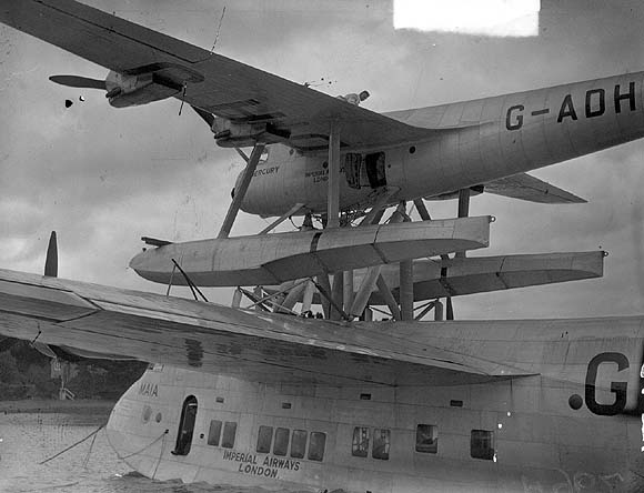 Imperial Airways seaplanes at Foynes, Limerick. On the bottom is Maia, with Mercury above. These planes were made by Short Brothers, and were aimed at solving the problem of getting heavily loaded aircraft into the air with a reasonably short take-off run. On 20 July 1938, the Irish Independent reported: "The Mercury will carry across the Atlantic copies of tomorrow's "Irish Independent", which, if the flight proceeds as scheduled, will be on sale in New York at mid-day on Thursday. She will also carry half a ton of newspapers and pictures of the King's visit to Paris. ... The Mercury will be catapulated [sic] from the back of the mother plane, Maia, and it is hoped to make the crossing in about 12 hours [to Montreal] and to be in New York in under 20 hours." Didn't realise that these two craft were part of a quite short-lived enterprise, but according to Bob Montgomery 2012: "the British Air Ministry, who had partially funded the experiments, decided there was no future in the project, and although Mercury was launched by Maia late in 1938 on two flights to Alexandria carrying Christmas mail, that was the end of the experiment." And thanks to guliolopez for the rather sad news that neither plane survived WWII: "The S20 (smaller one - Mercury) was broken up at Rochester during WWII for its aluminium. The S21 (bigger one - Maia) was destroyed in an air raid at Poole also during WWII." Date: 20 July 1938 NLI Ref.: INDH962